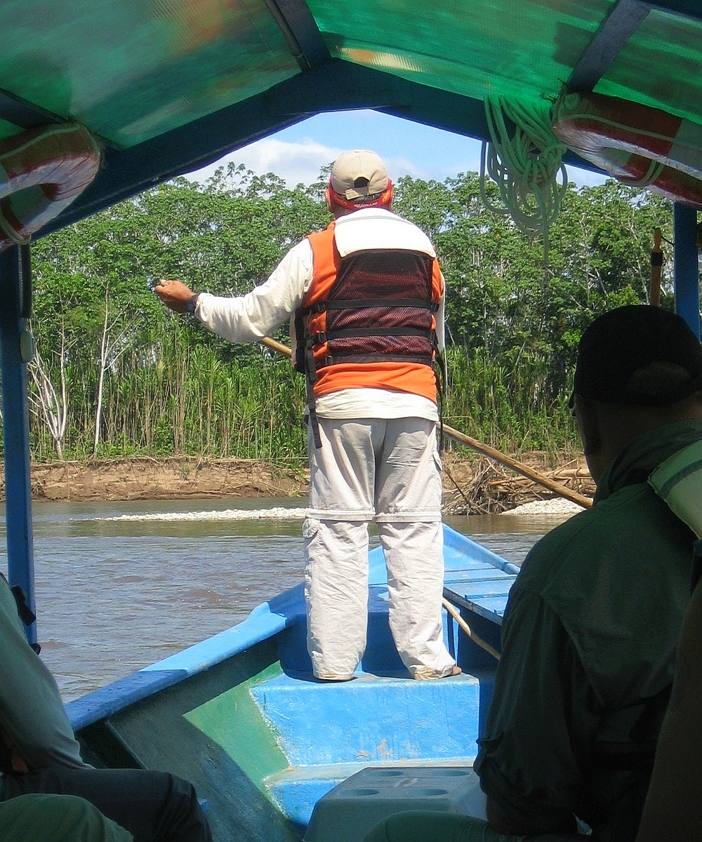 Boat pilot on Tambopata River between Refugio Amazonas and Tambopata Research Center (Peru)